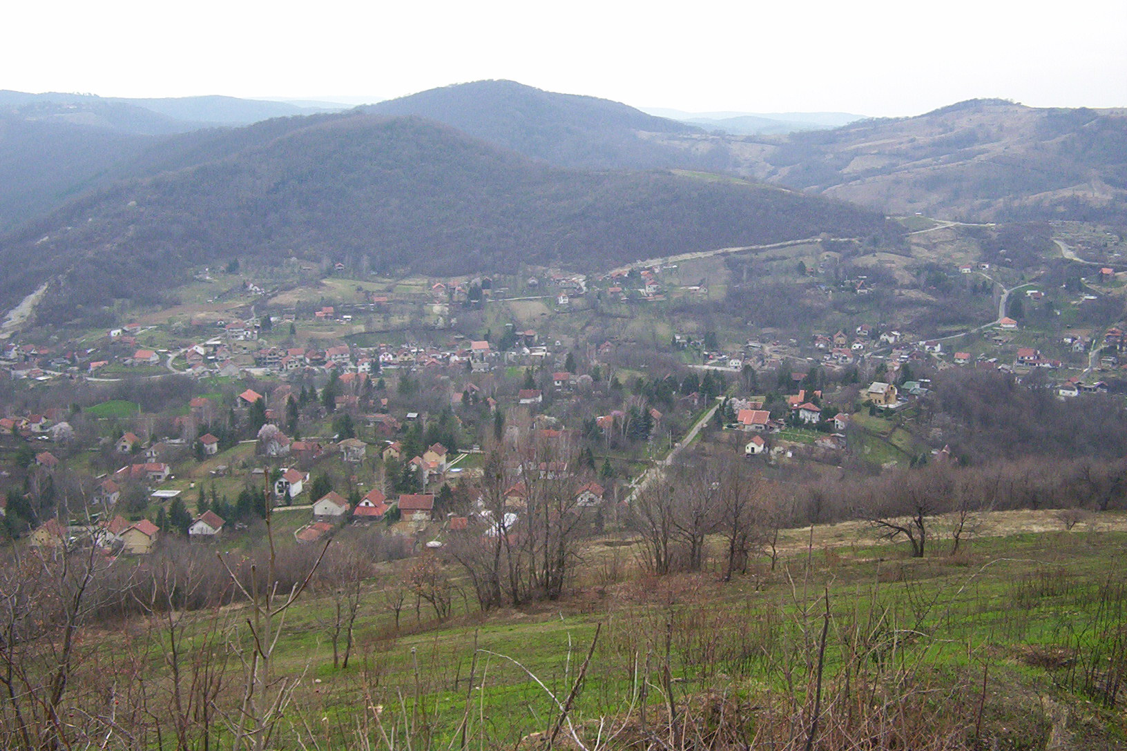 Village of Stari Ledinci, in Serbia (2007-03-07).